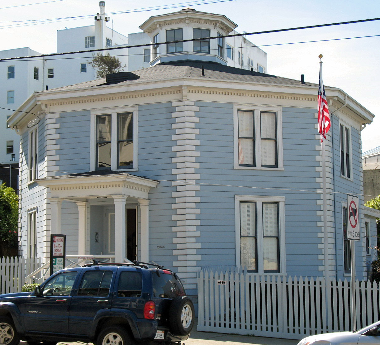 National Register of Historic Places in San Francisco, California. McElroy Octagon House, 2645 Gough St, San Francisco, California, USA. Photographed 2008-03-09 by Mike Hofmann from sidewalk on east side of Gough St. between Union and Green Sts.